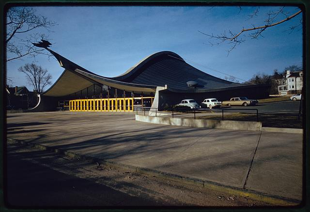 Yale University, David S. Ingalls Hockey Rink, New Haven, Connecticut, 1956-59. Exterior Note: No known restrictions on publication. Balthazar Korab Archive (Library of Congress).